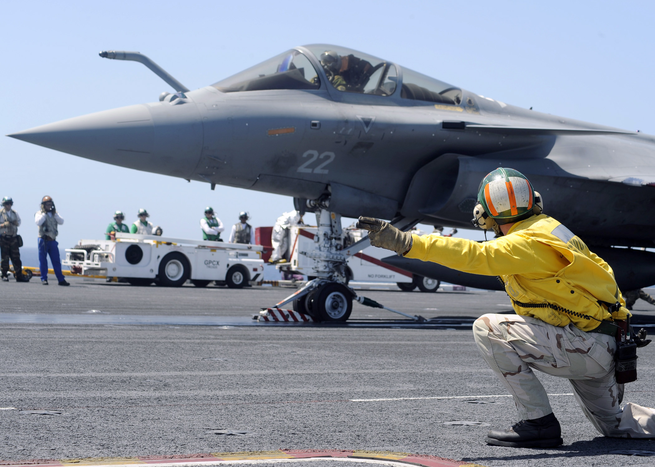 ATLANTIC OCEAN (July 20, 2008) Lt. Cmdr. Christopher Biggs shoots a French Rafale M off the aircraft carrier USS Theodore Roosevelt (CVN 71) during combined French and American carrier qualifications. This event marks the first integrated U.S. and French carrier qualifications aboard a U.S. aircraft carrier. U.S. Navy photo by Mass Communication Specialist 3rd Class Jonathan Snyder (Released)